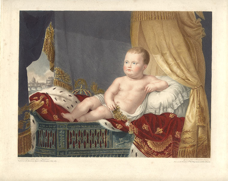 [„Napoleon II.“], 1812 (with Rome in the background)